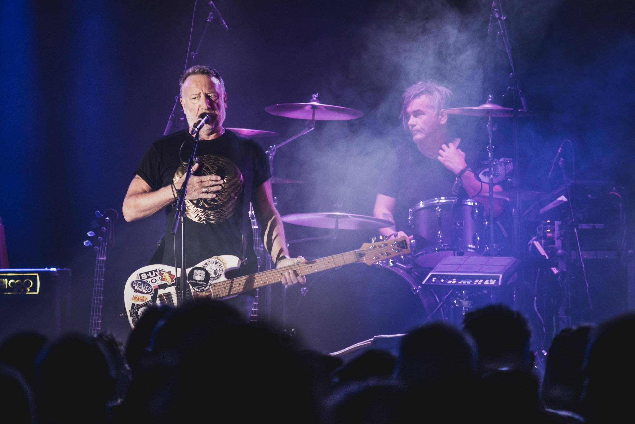 Rockaway Beach: Peter Hook and the Light